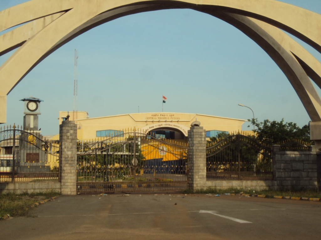 A view of the Central Prison at Puzhal, near Chennai.